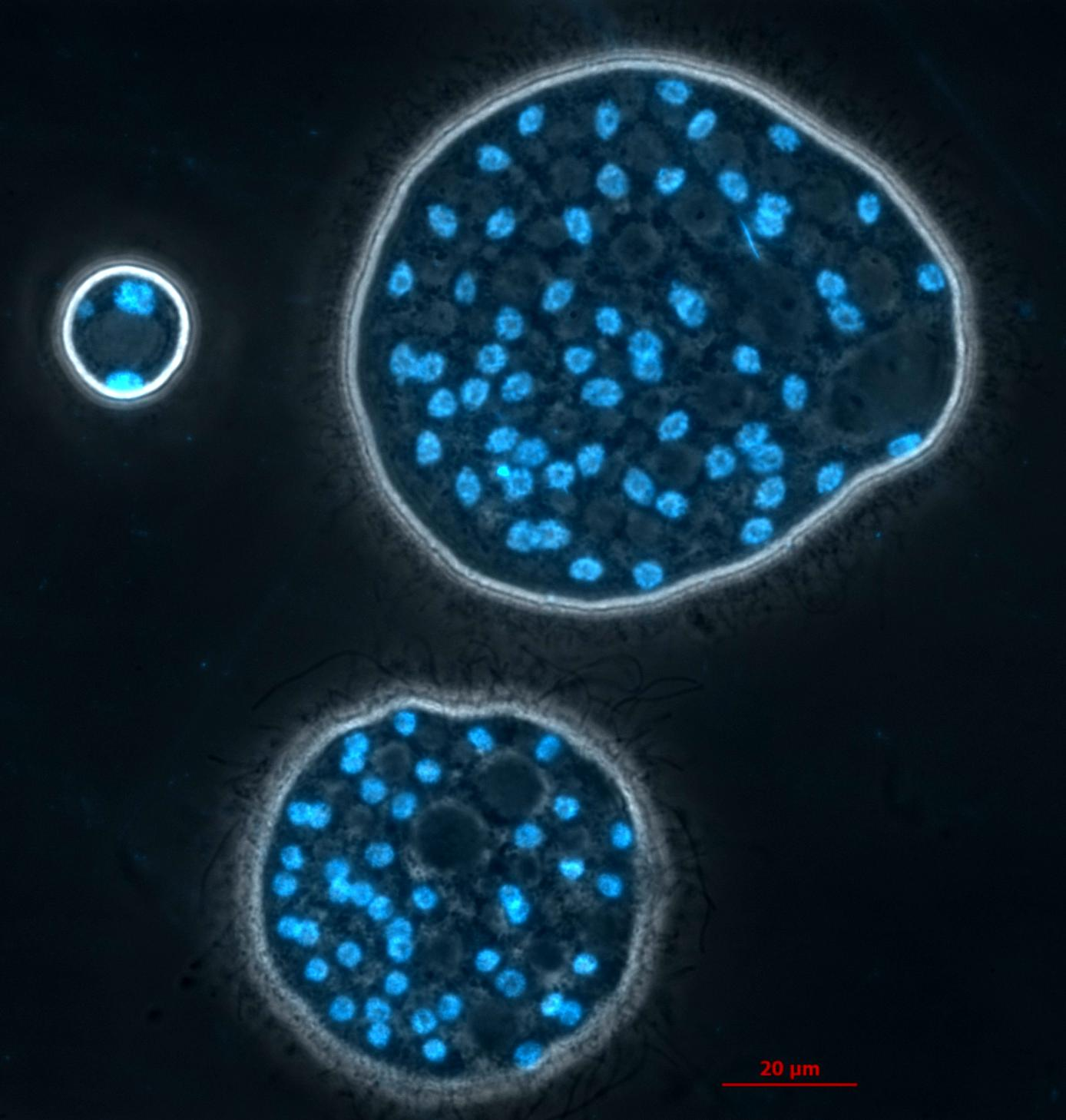 Colony of Abeoforma whisleri (Ichthyosporea) stained with Hoechst (nuclei in blue) in vivo Picture by Maria Rubio and Cristina Aresté